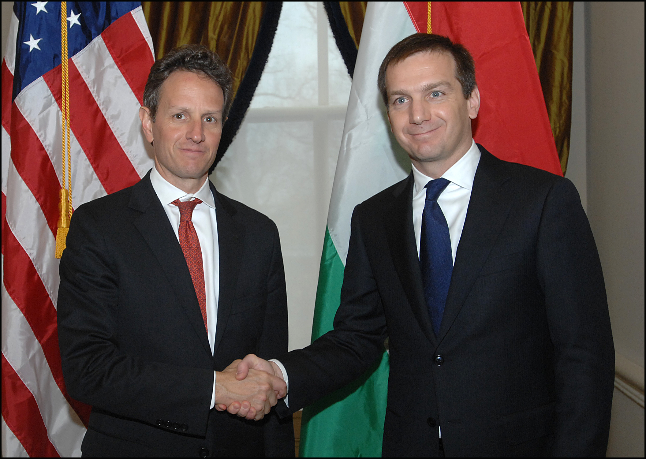 On December 4, 2009, Secretary Geithner met with Hungarian Prime Minister Gordon Bajnai.